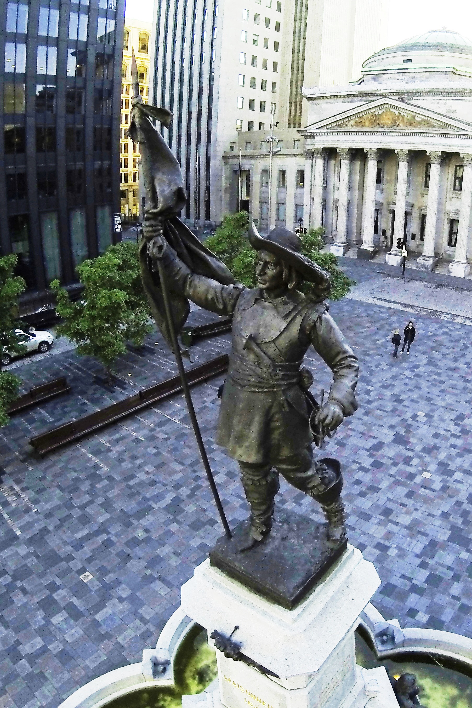 Paul Chomedey De Maisonneuve's Statue. Taken with a Gopro H3BE camera mounted on a DJI Phantom quadropter.